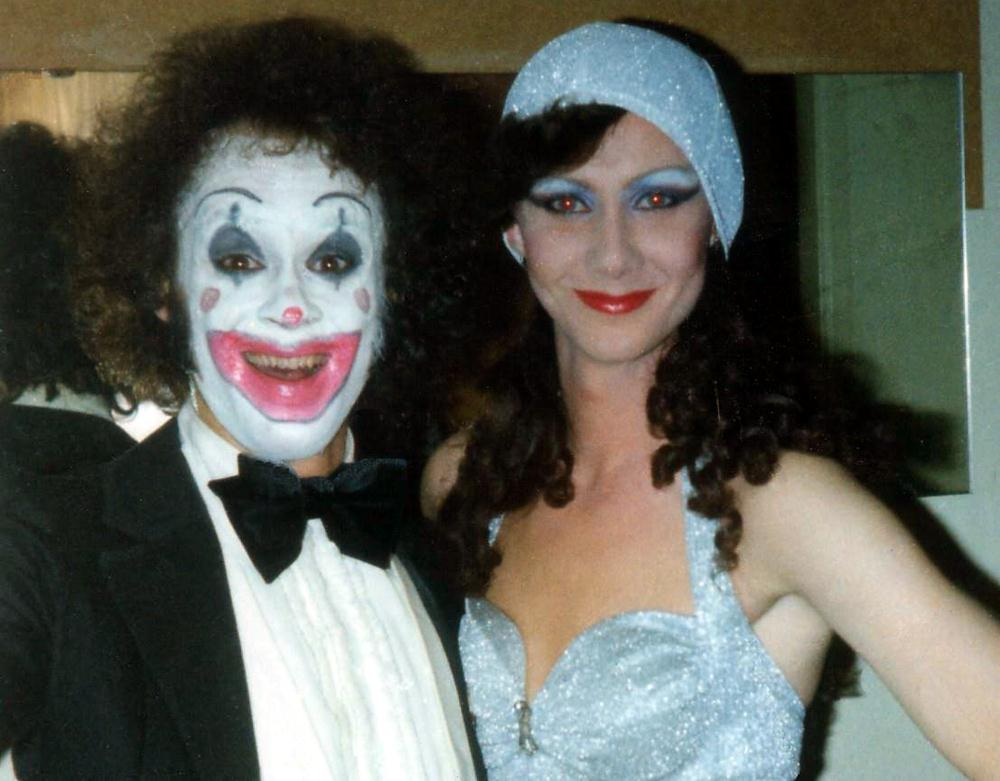 Lars Jacob (left) & Christer Lindarw, as they appeared in Lars Jacob's Monday Night DragshowPlace: Dressing room at Alexandra's, Biblioteksgatan 5, Stockholm, Sweden